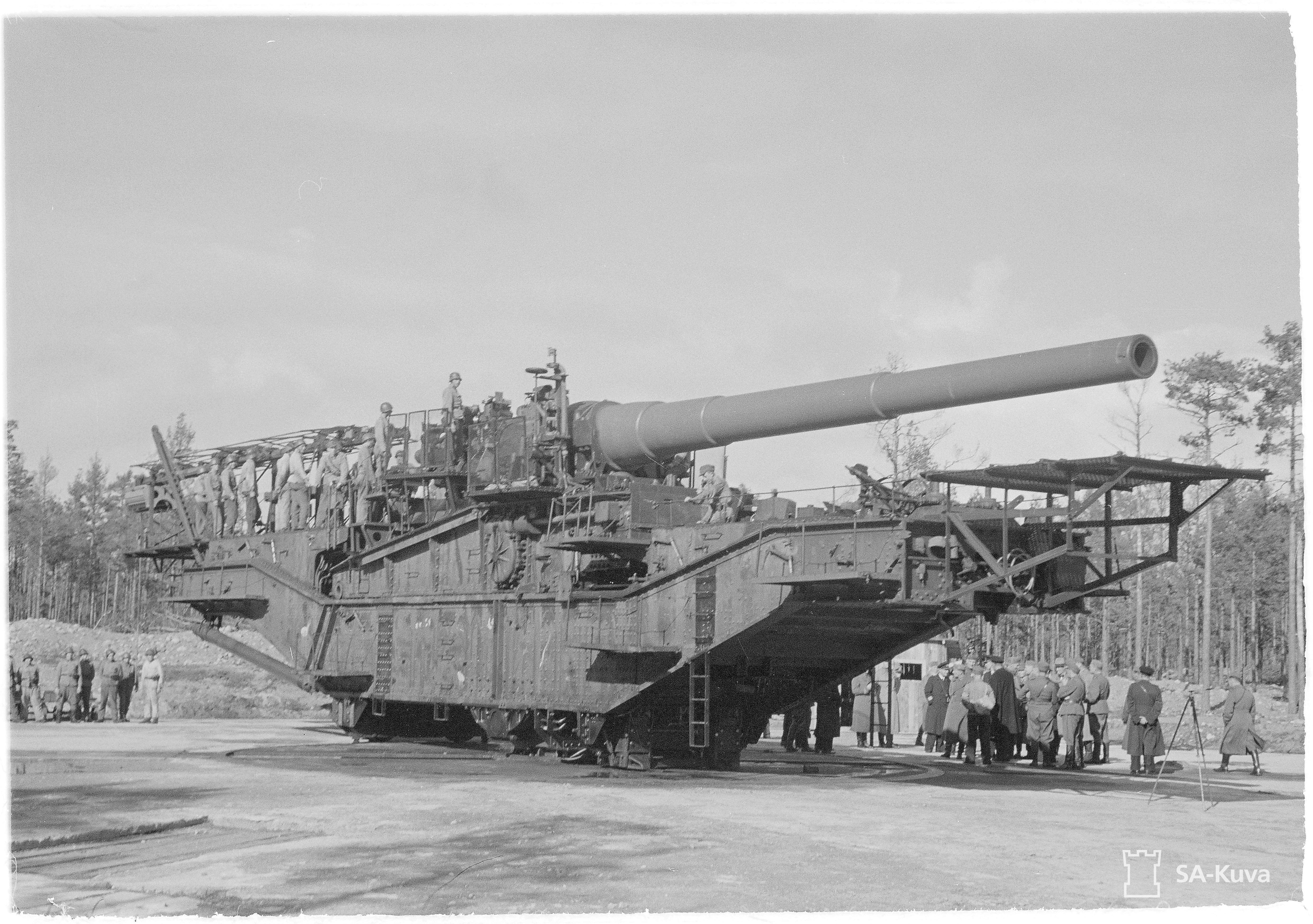 One of the 305-mm guns of the battleship General Alekseev at the shore installation restored by Finns.